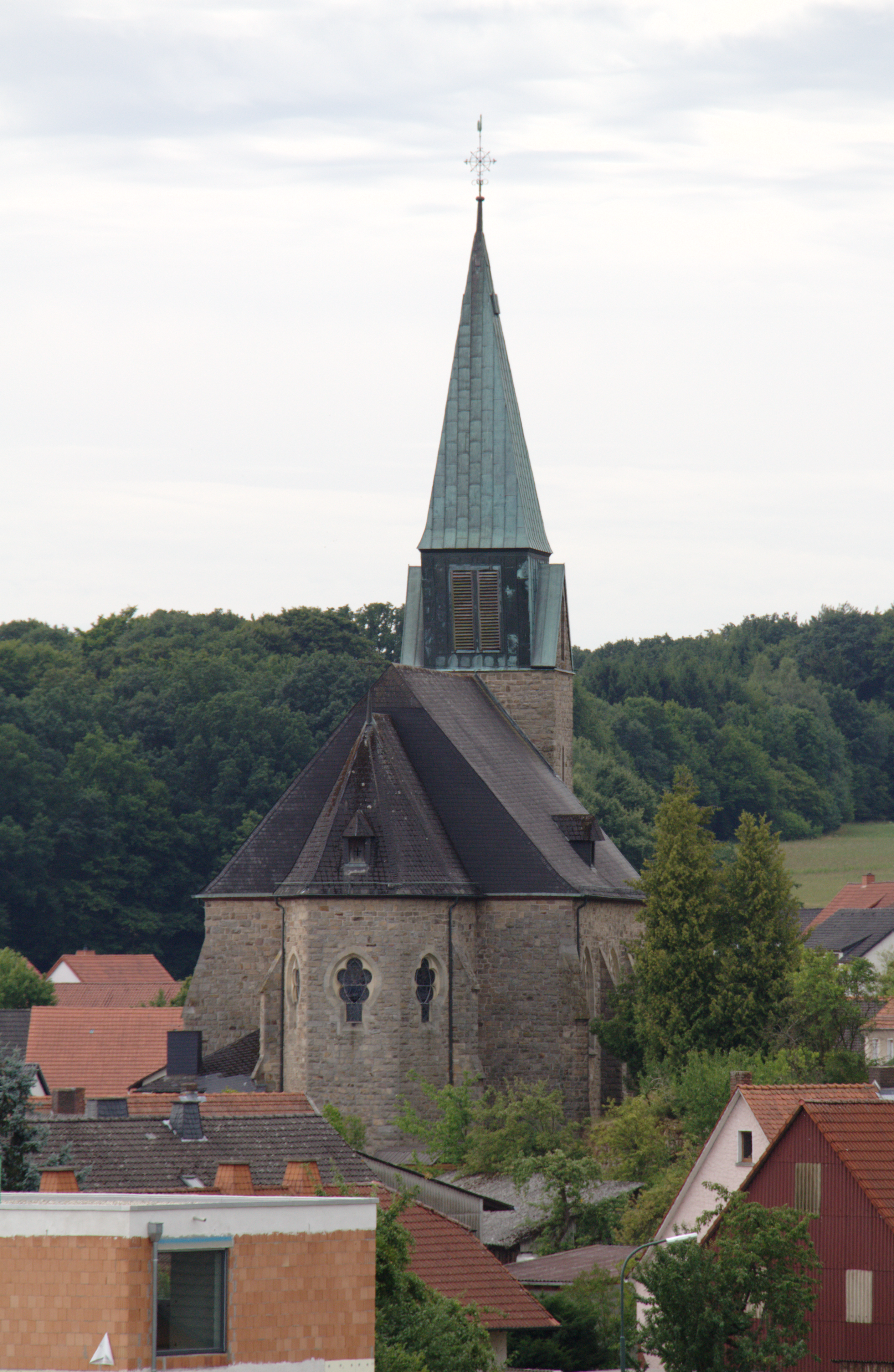 St. Jakobus church in Buechenberg, Eichenzell, Hesse, Germany